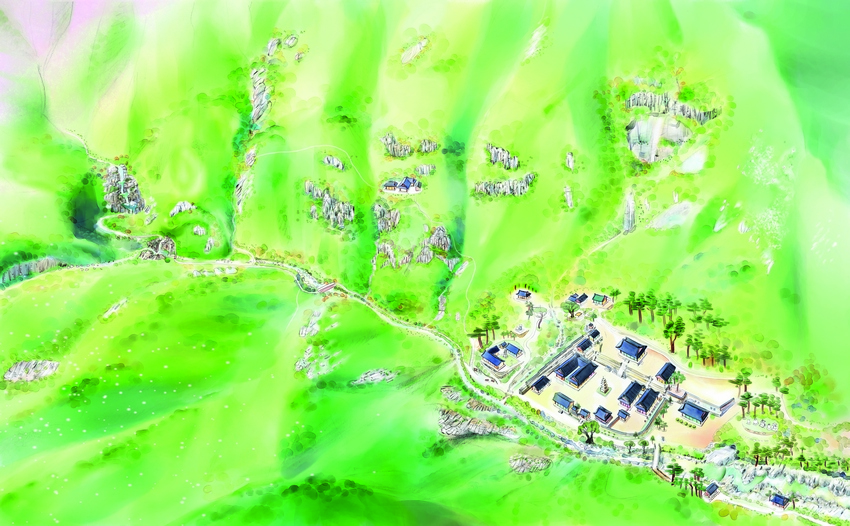 Guide map of the Samhwa temple in South Korea